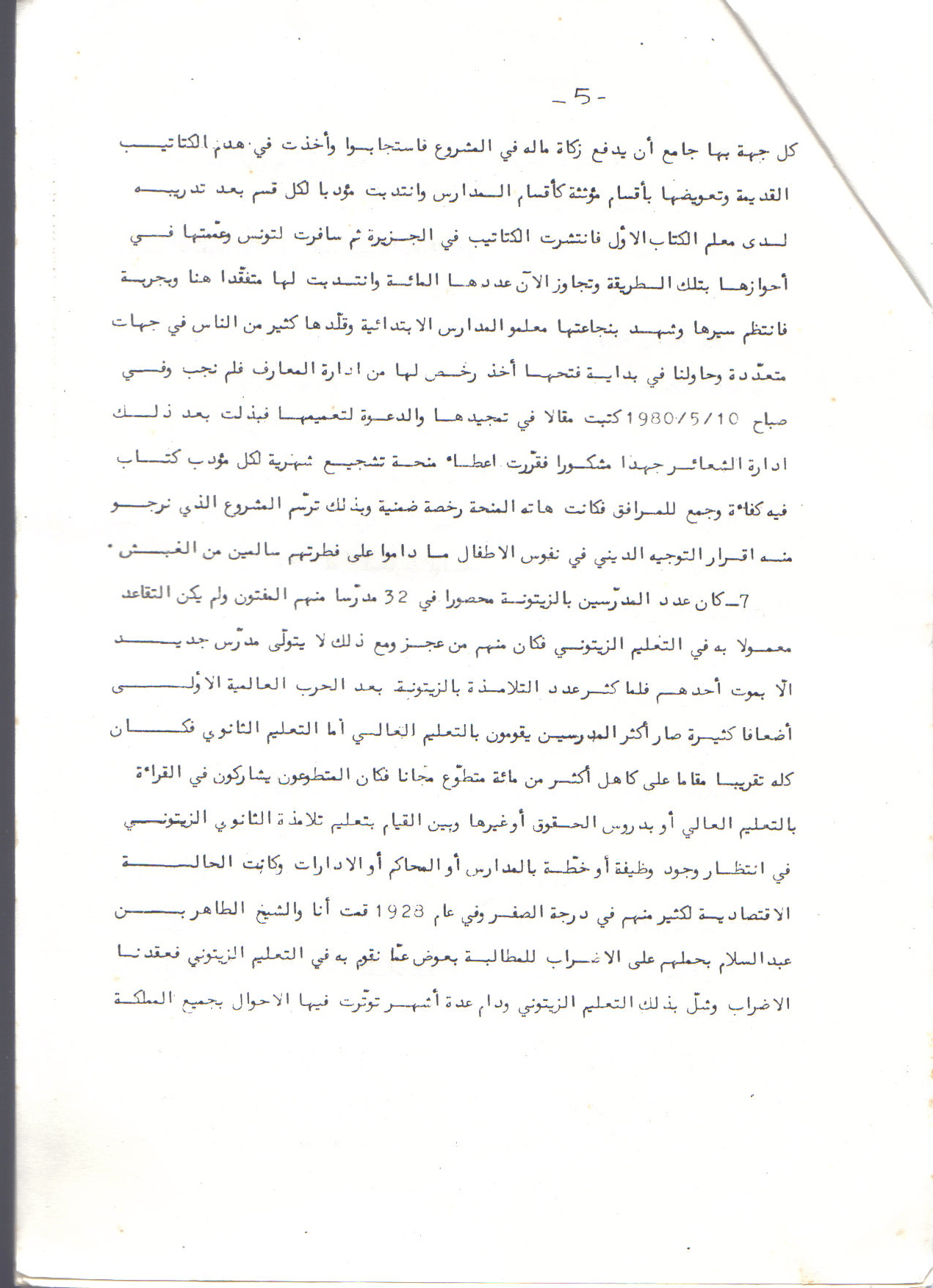 السيرة الذاتية للشيخ الطيب التليلي، ص 5